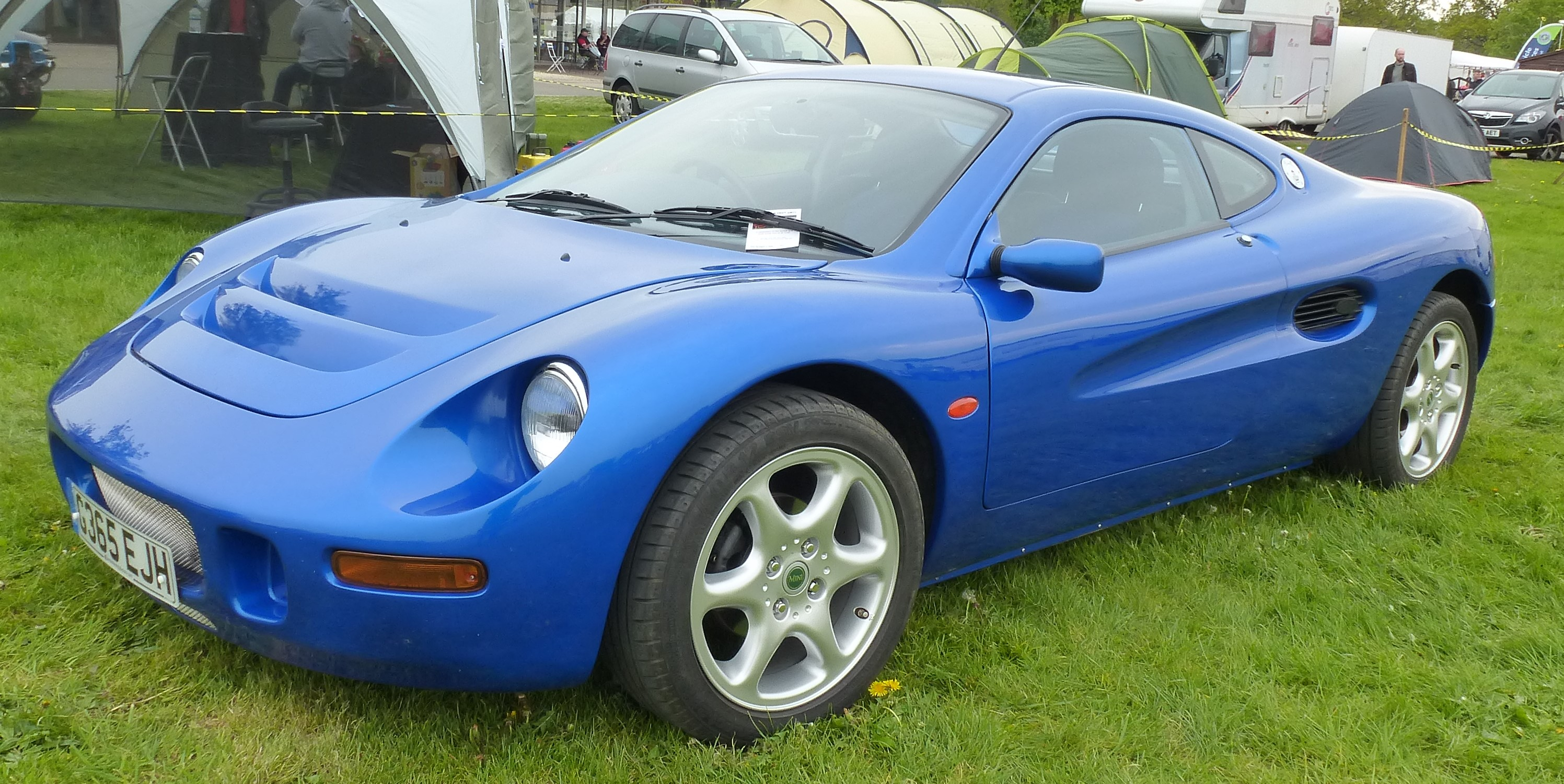 Phantom GTR